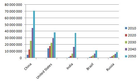 Top 5 economies 2050 GDP nominal, millions of US$